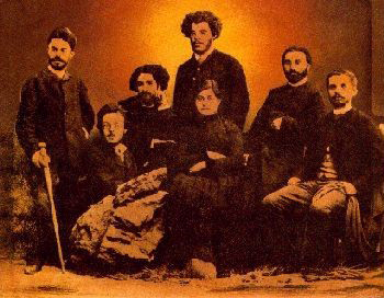 Founding Members of Social Democrat Hunchakian Party : Avetis Nazarbekian, Mariam Vardanian/Nazarbekian (Maro), Gevorg Gharadjian, Ruben Khan-Azat, Christopher Ohanian, Gabriel Kafian and Manuel Manuelian